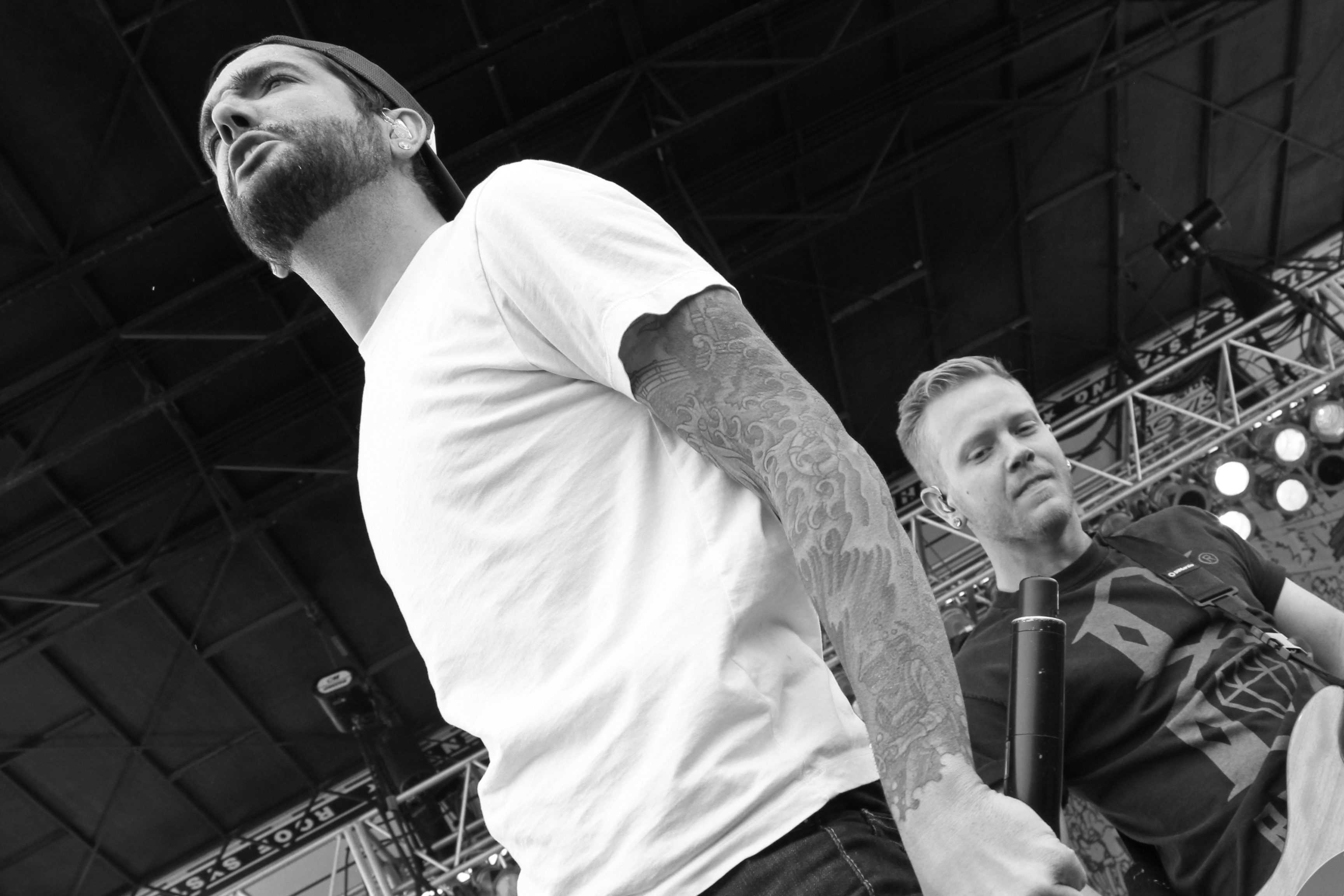 A Day to Remember singer Jeremy McKinnon and bassist Joshua Woodard live in concert, 2014